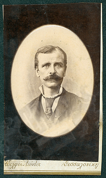 Kuzman Shapkarev